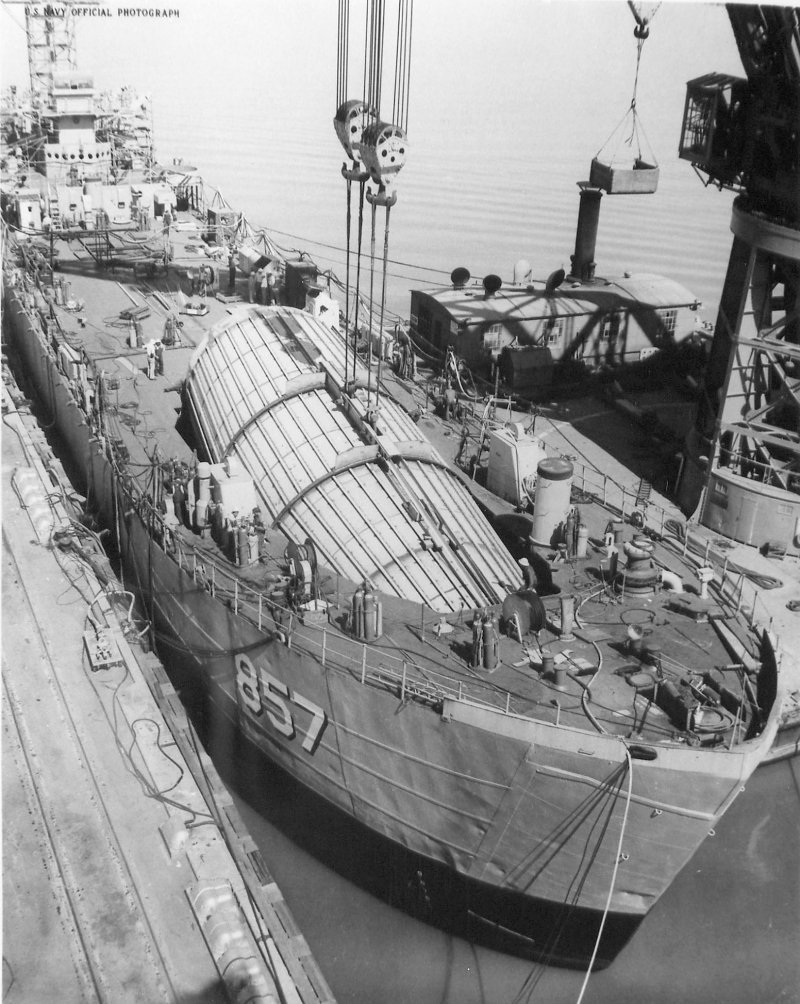 The Regulus II missile launcher being installed aboard USS King County (LST-857). YD-33 is doing the lifting. Mare Island Navy Shipyard photo # 33809-4-57.